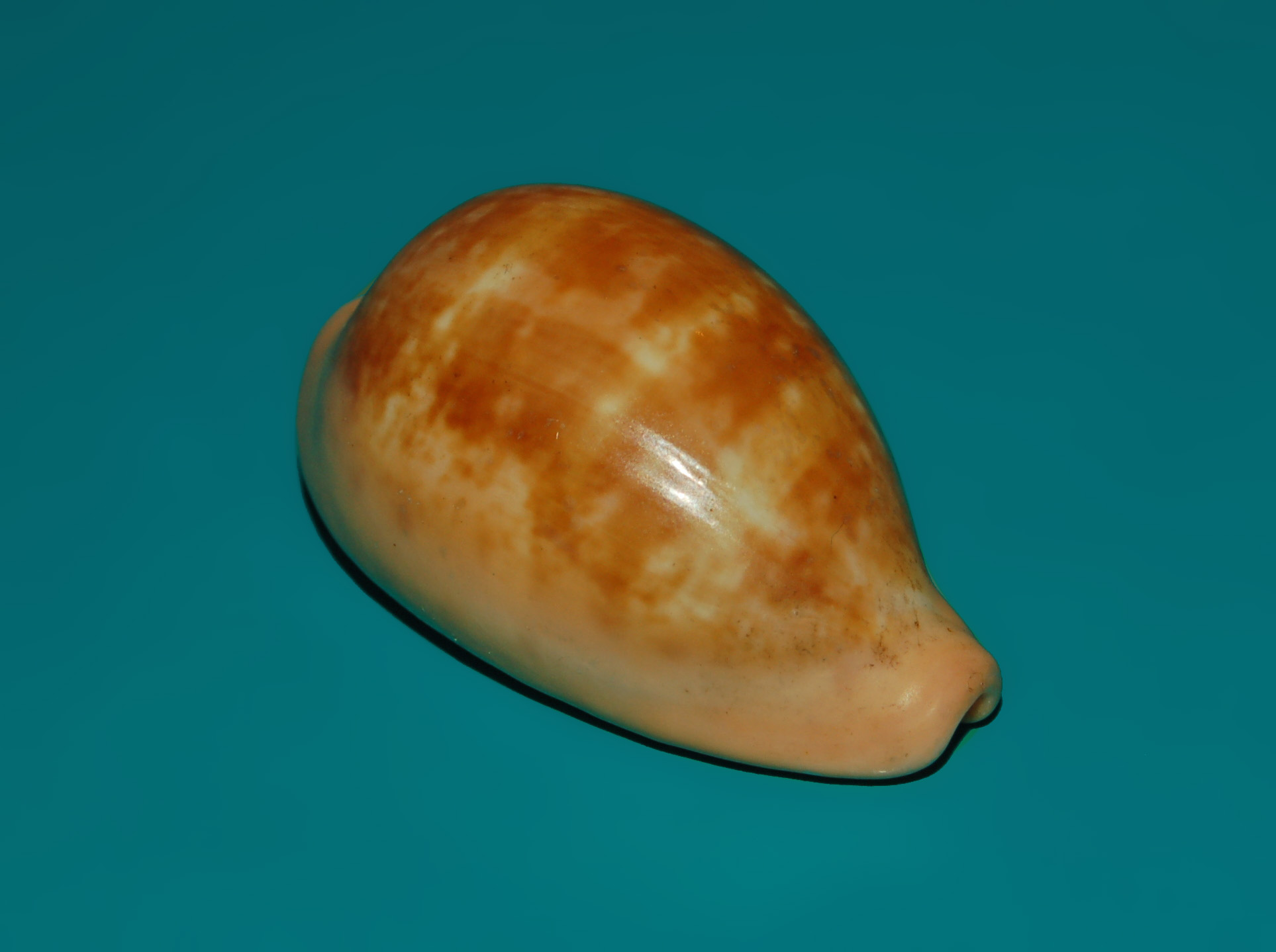 Zonaria pyrum